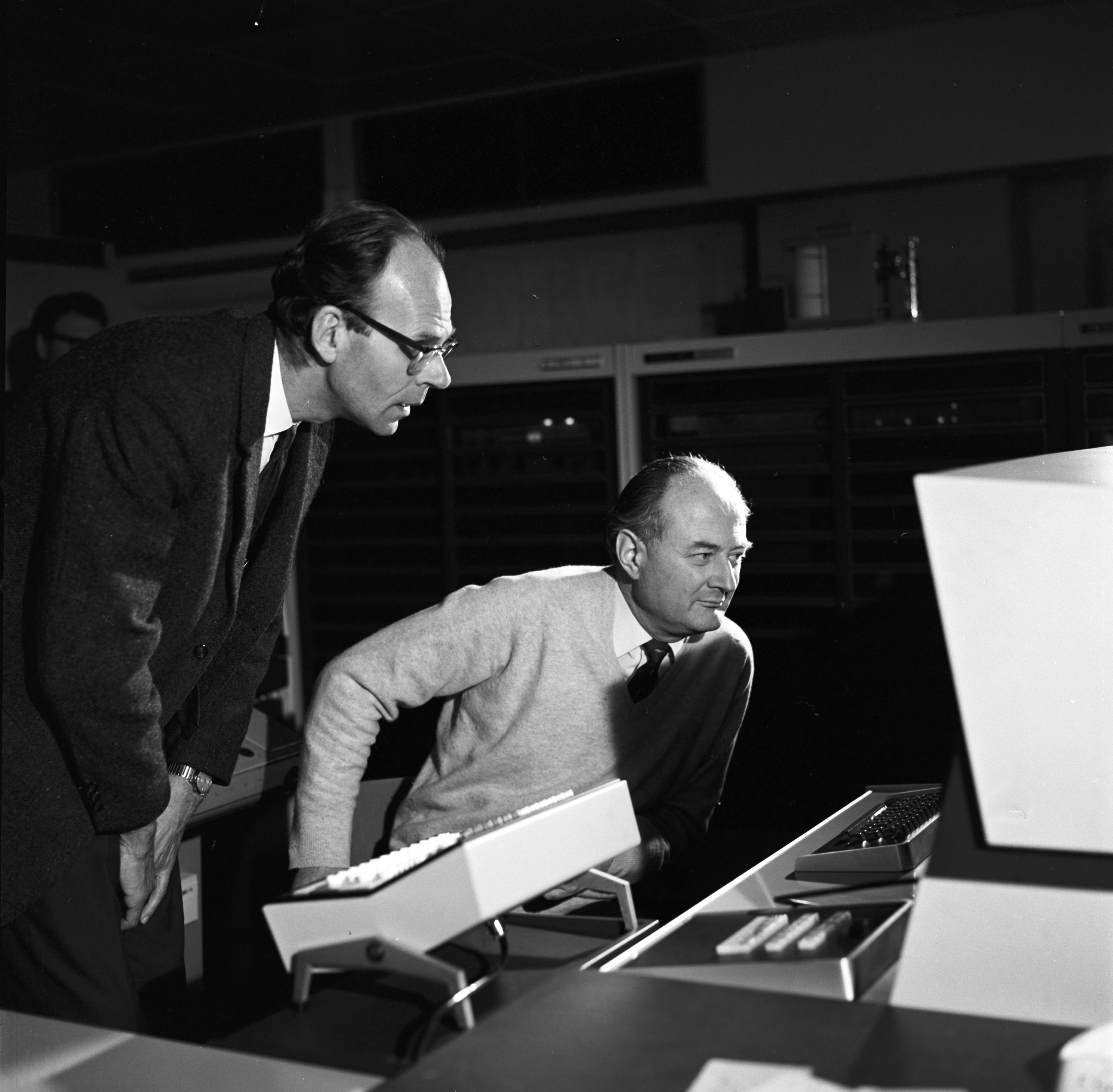 Physicists using the GAMMA system at CERN for interactive computing.